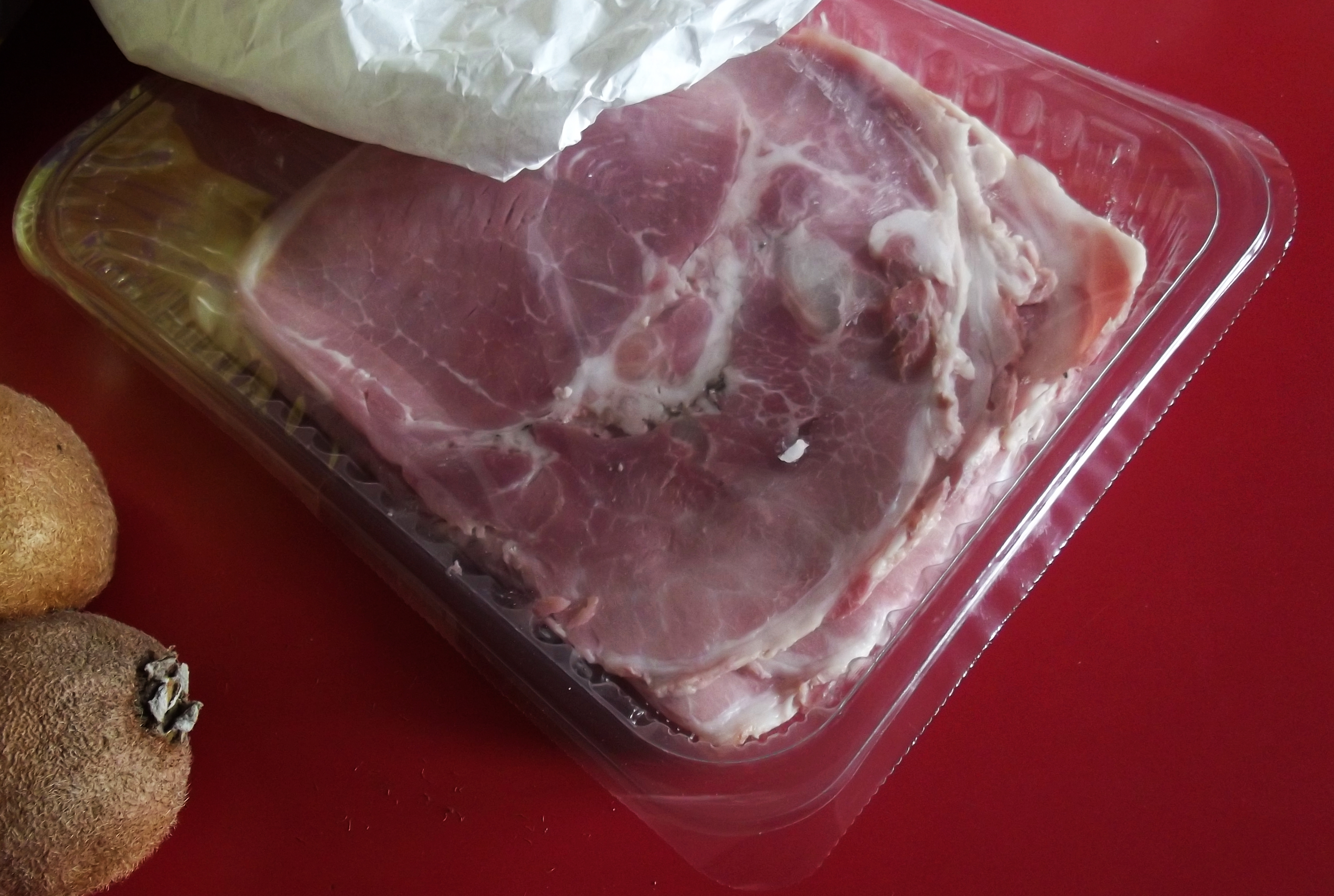 Sliced and packed paletta biellese (traditional ham from the province of Biella)